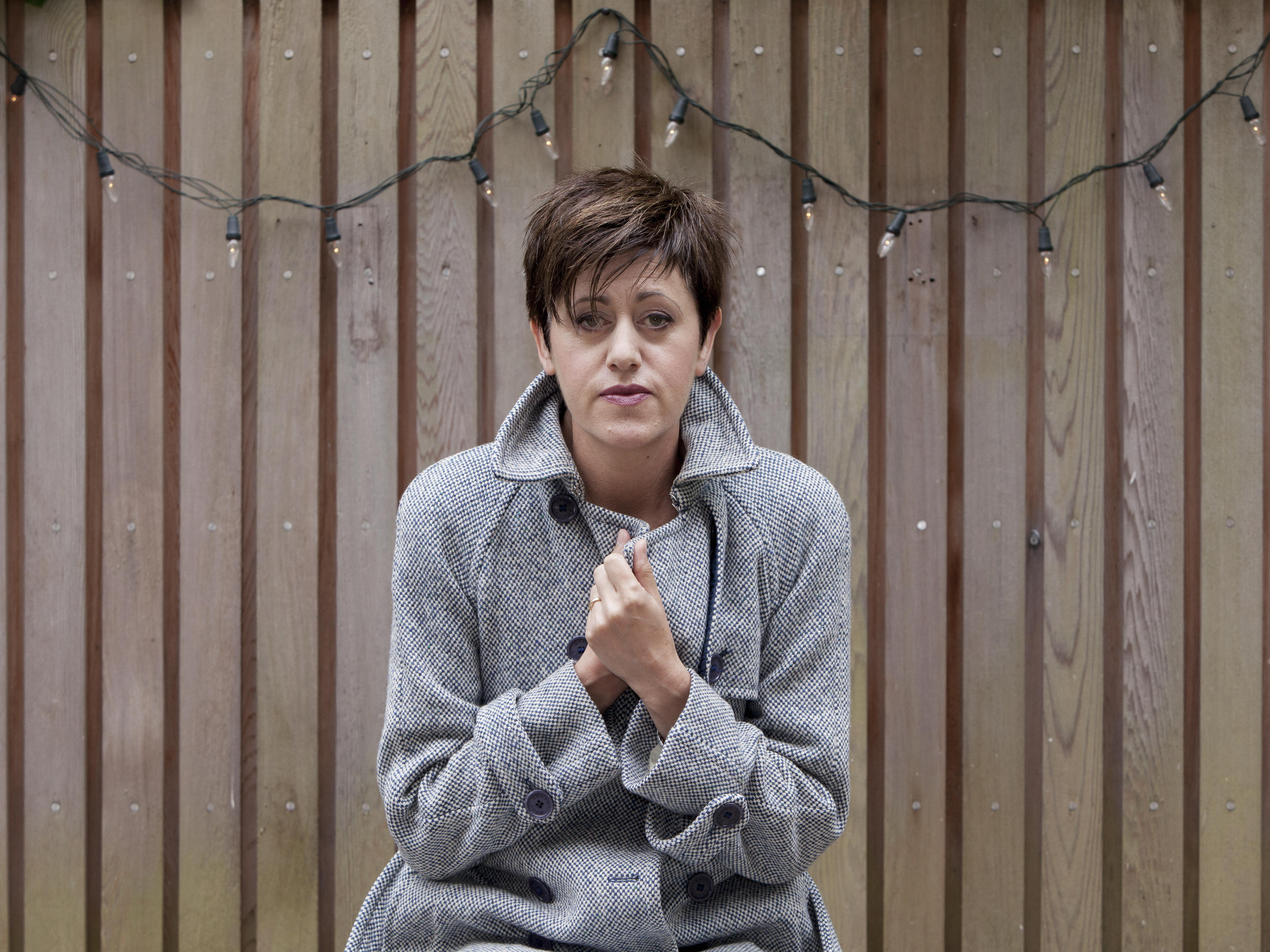 UK singer Tracey Thorn. Photo by Edward Bishop